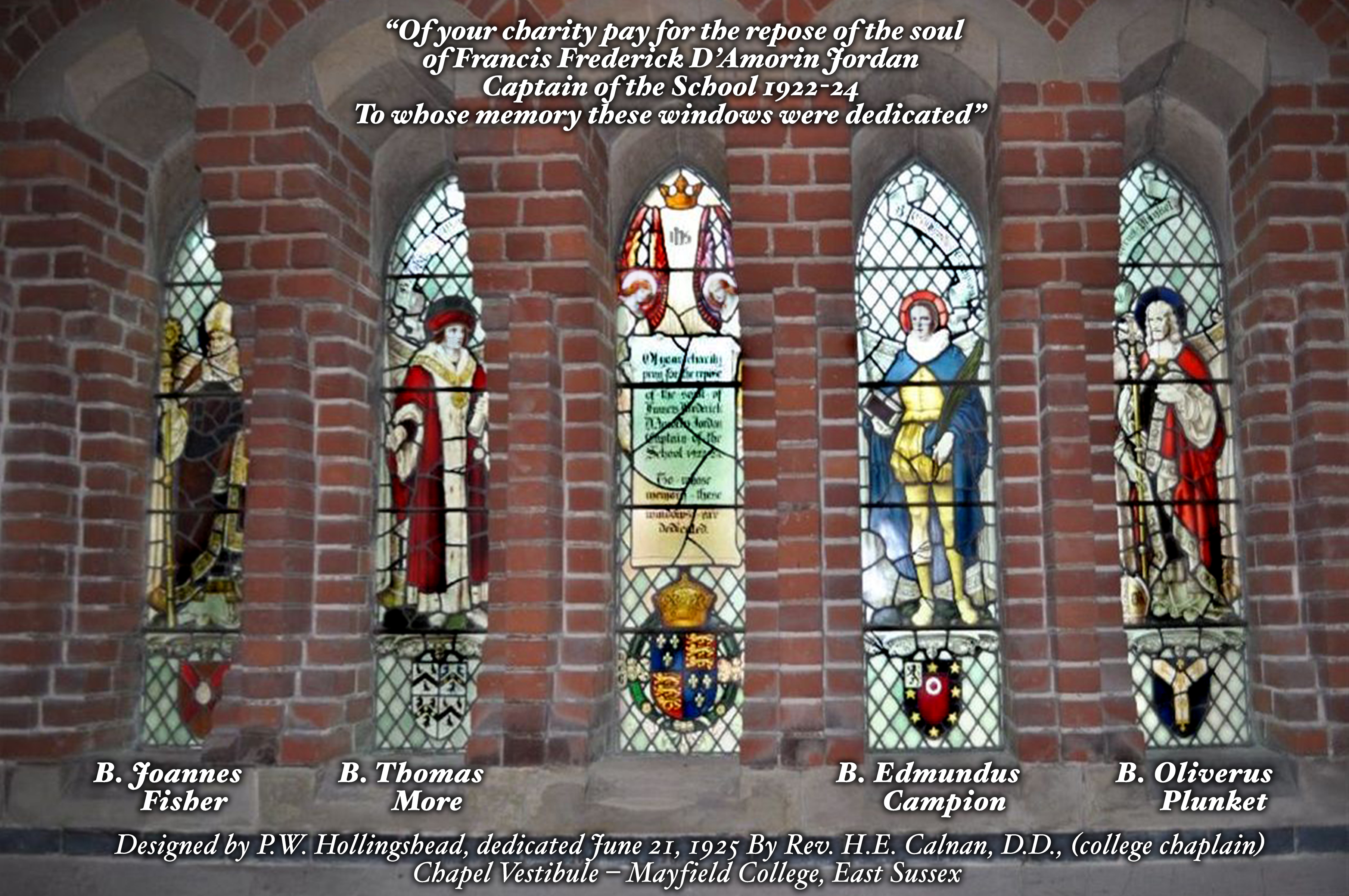 Stained glass panel at Mayfield College showing memorial to Francis Frederick D'Amorin Jordan and patrons of school houses.